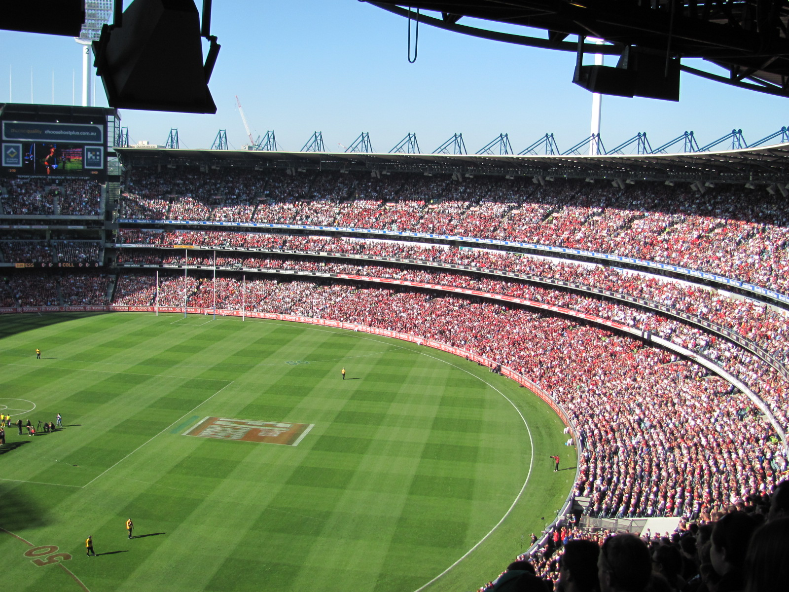 ANZAC Day game between Collingwood and Essendon football teams, 25 April 2011.